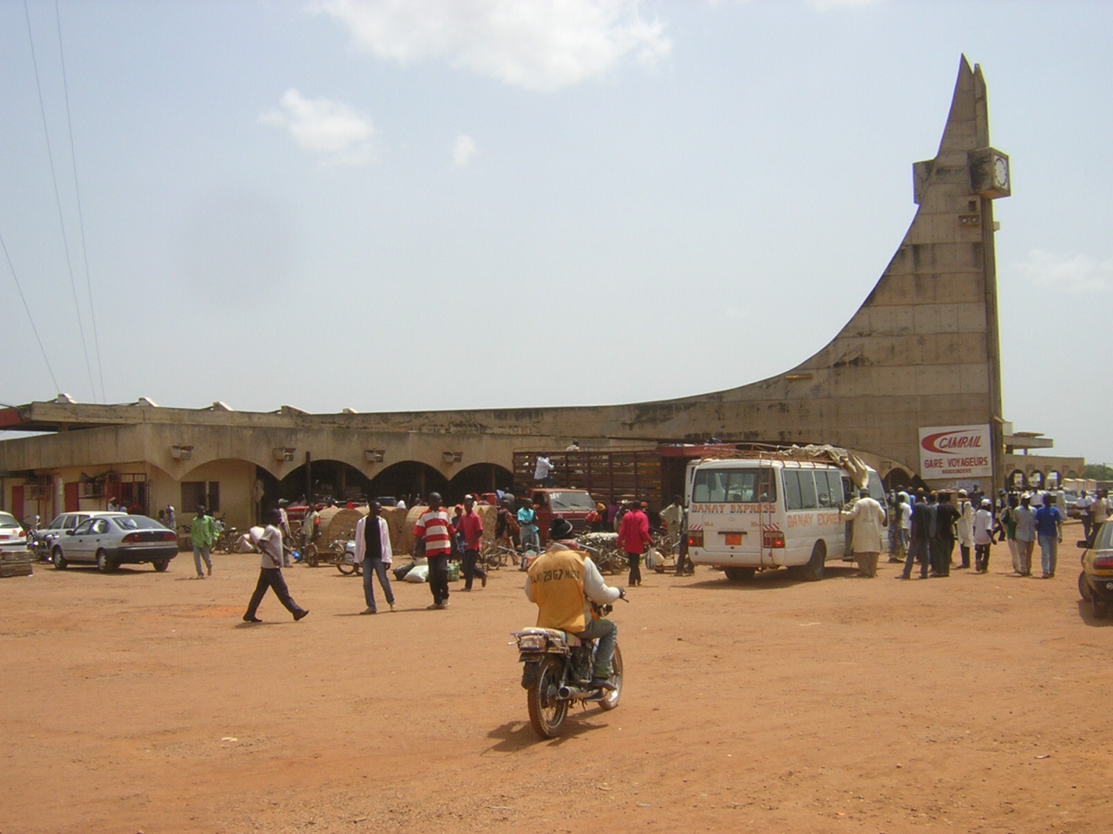 station of Ngaoundéré